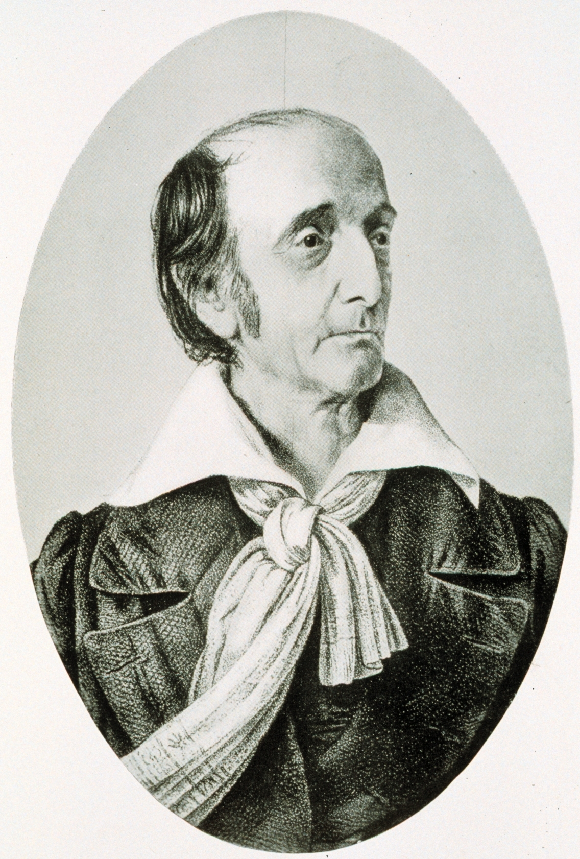 Ferdinand Hassler, founder and first Superintendent of the Coast Survey.